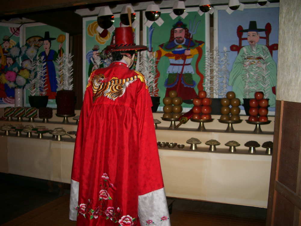 Shamanism has a long history in Korean culture. The practitioners, known as mudang (무당), are women who were possessed by spirits and gained supernatural powers as a result. A woman never became a mudang voluntarily, but only through involuntary possessions. Although a mudang had a lot of powers among the people she served, she would have occupied the lower ranks of the Korean caste system and not been given much respect. The exorcism ceremony performed by a mudang is known as gut (굿). There are dozens of varieties of the ceremony, differing by region and function. Shamanism was severely suppressed by the military dictators and Christians in South Korea, but now is considered a valuable cultural heritage. North Korea's Communists have also severely cracked down on shamanism. Some mudang were actually biologically male, though performed their ceremonies and lived their lives in a female gender role like all other mudang; this is another fact that the dictators and the Christians wanted to suppress. As a result, some shaman ceremony re-enactments today are performed by men (though their costumes, of course, remain feminine). This is a wax figure of a mudang, in her distinctive cape and cap, making an offering to the spirits.